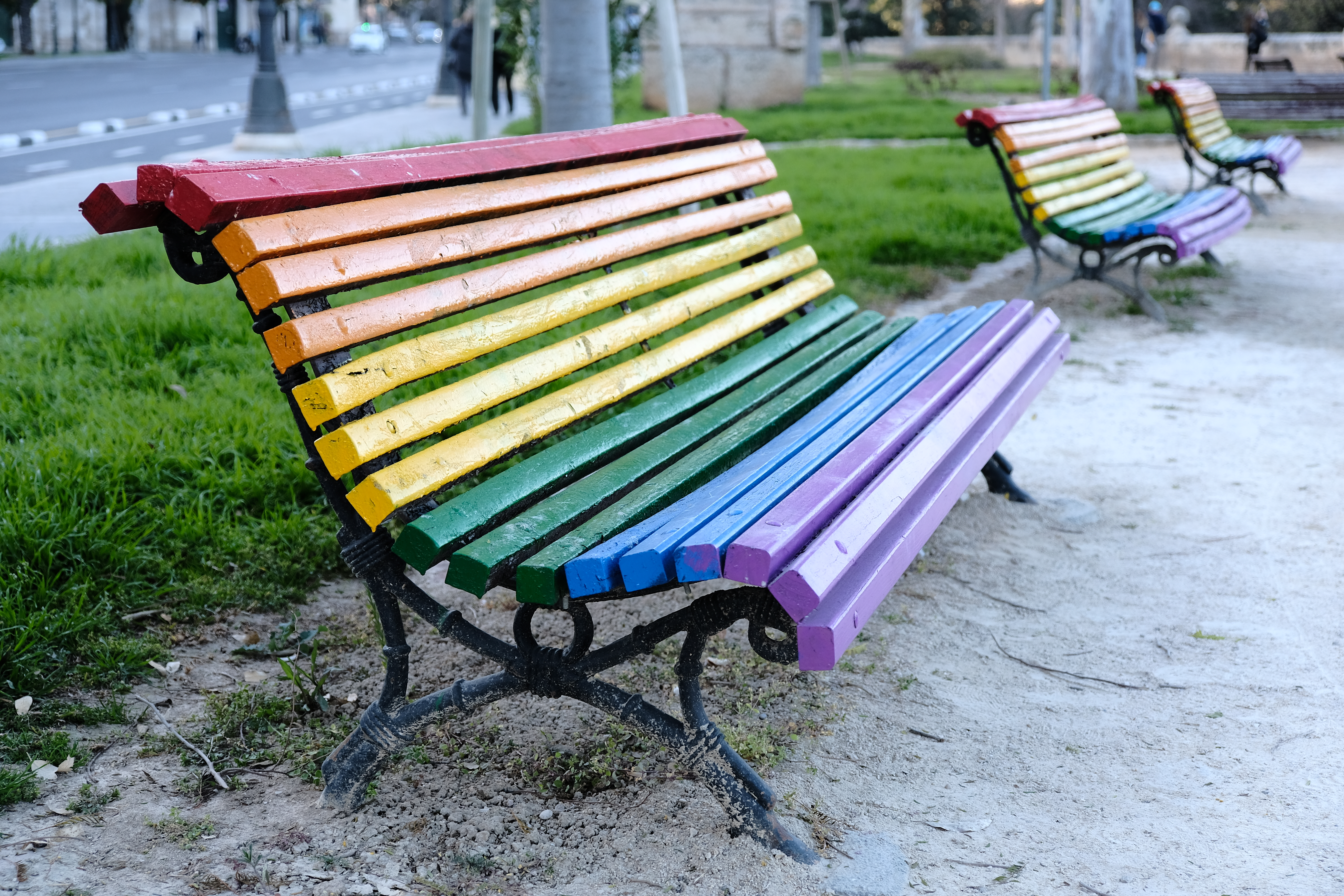 Since May 2017 several park benches in the city of Valencia are painted with the colours of the rainbow flag, as a symbol against LGTB phobia. This photo has been taken in the country: Spain